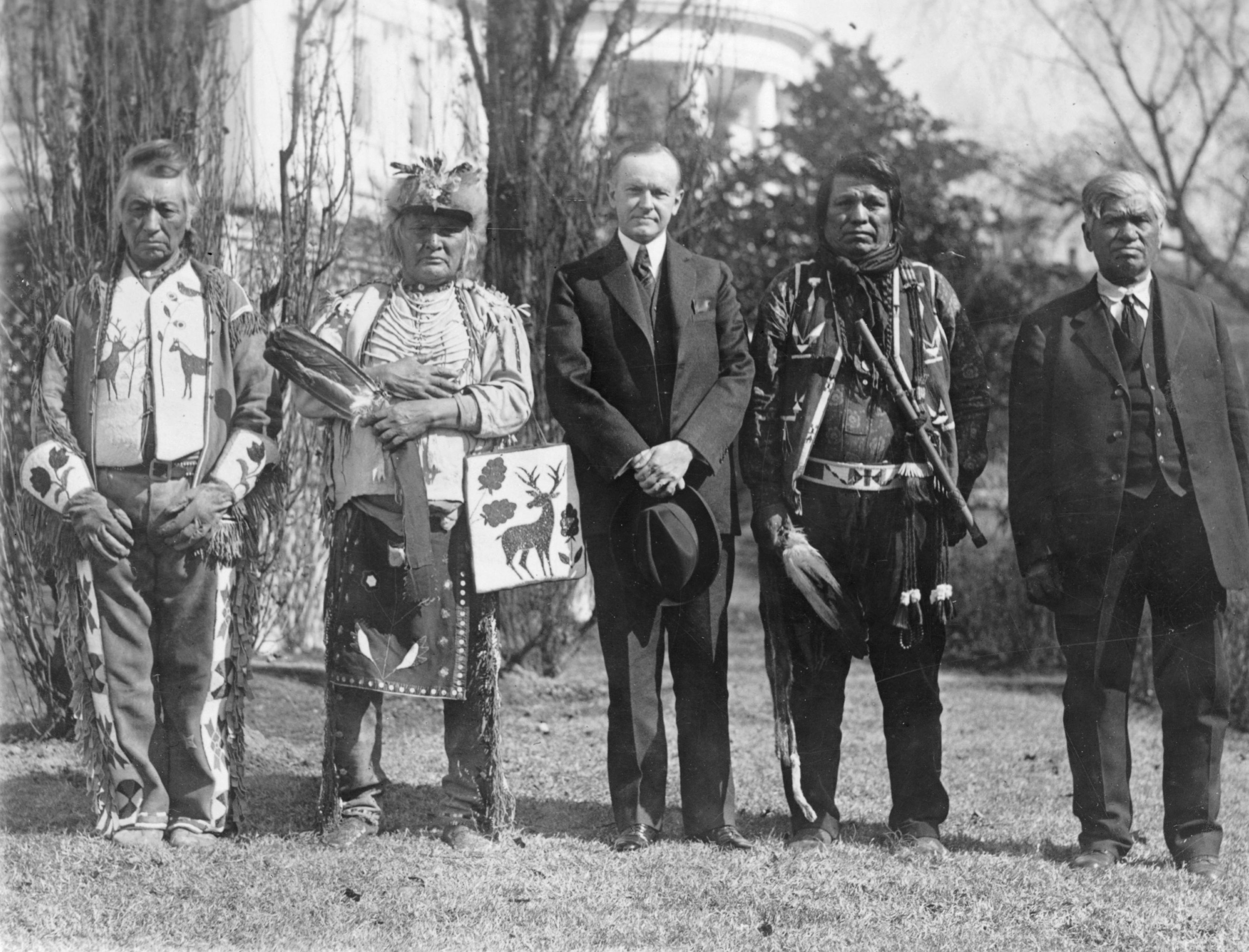 U.S. President Calvin Coolidge with four Osage Indians after Coolidge signed the bill granting Indians full citizenship.